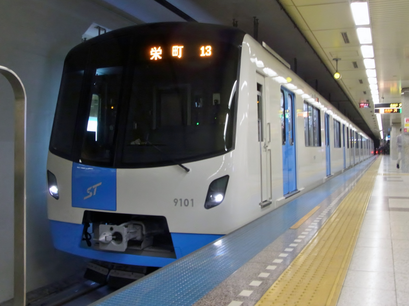 Sapporo Subway 9000 series EMU set 9001 at Odori Station on the Toho Line